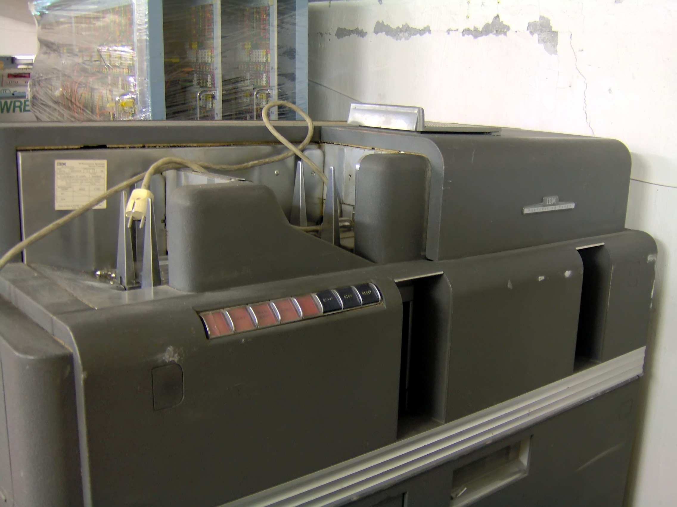 An IBM 514 reproducing punch (punch card duplicator), built in 1960. Originally owned by Trondheim Elektrisitetsverk ("Trondheim Power Company"), now part of the collection of the future computer museum at NTNU. Photo taken by User:Arj.